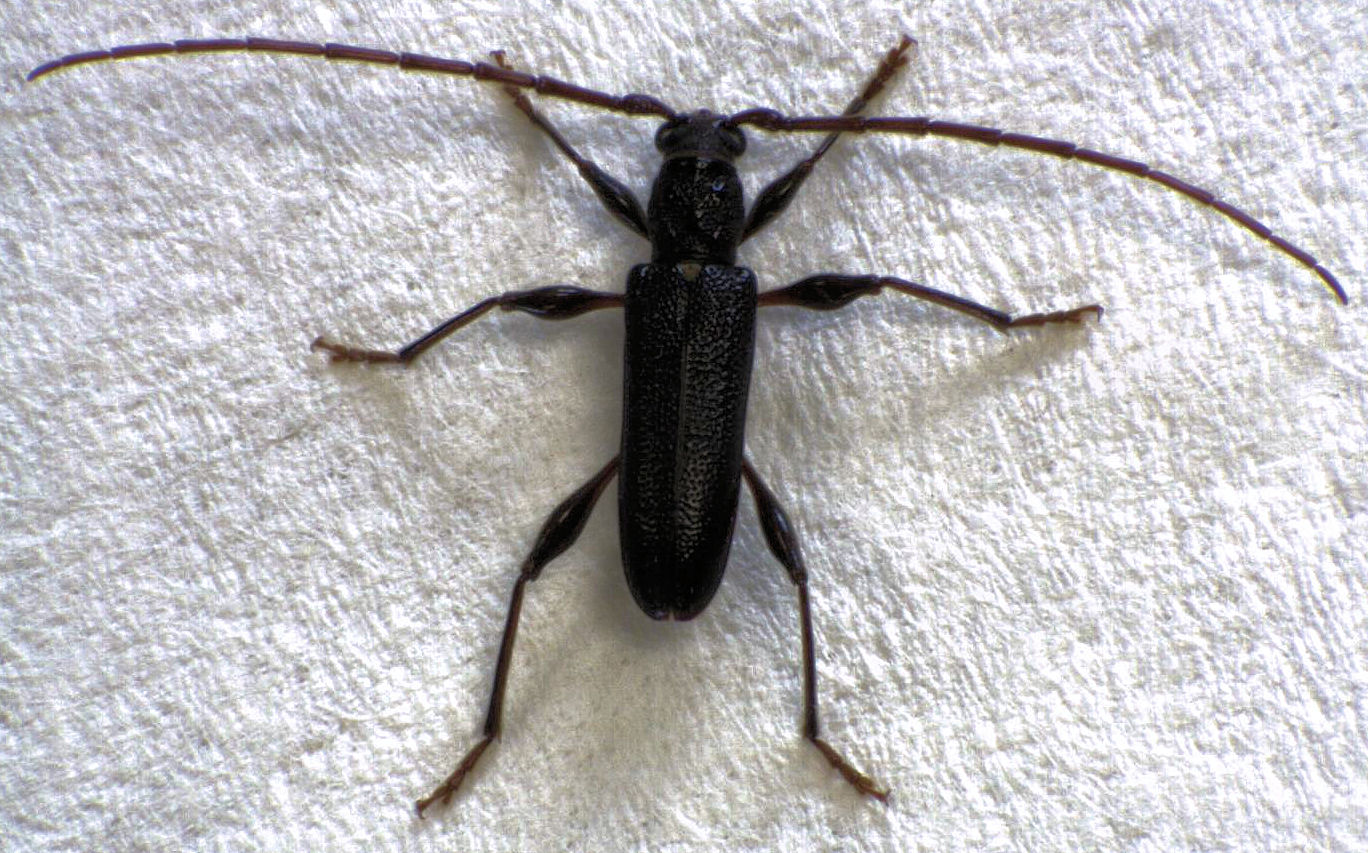 Callidiopis scutellaris (male, body length about 13 mm)